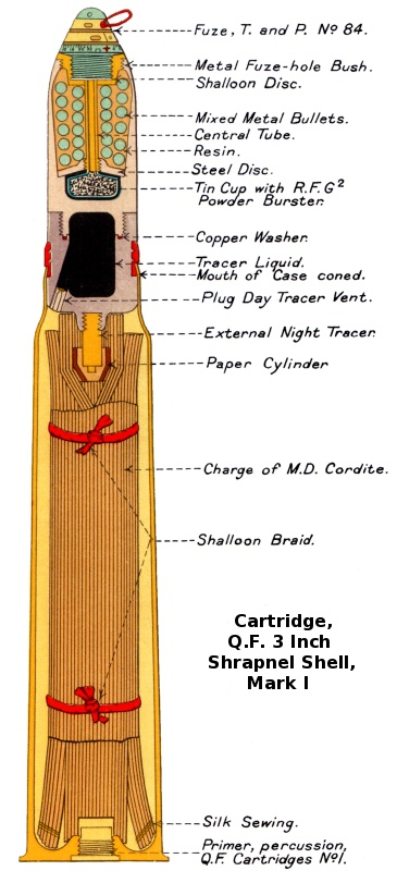 Diagram of British QF 3 inch Mk I (12.5 lb) Shrapnel shell and cartridge, 1914. As used by QF 3 inch 20 cwt anti-aircraft gun. The propellant charge is 2 lb 7 6/16 oz of Cordite M.D., Size 11. Total weight of complete cartridge is 20 lb 11 oz 14 drams. See Image:QF3inchShrapnel&TracerMkIShellDiagram.jpg for larger image of shell.